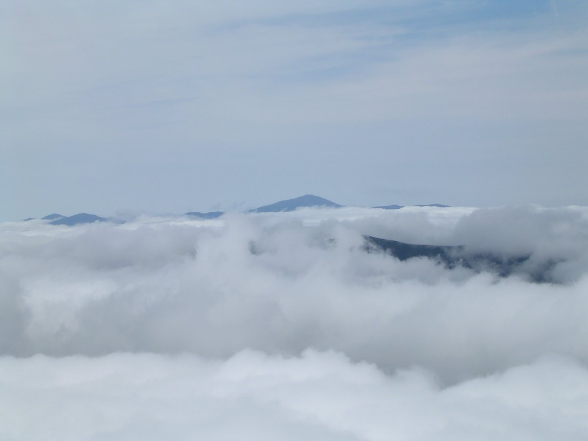 Mount Washington and presidential range poking through the clouds as viewed from Mount Lafayette.